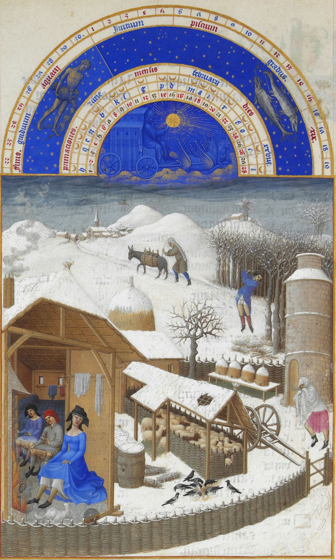 An enclosure surrounds a farm comprising a sheep pen and, on the right, four beehives and a dovecote. Inside the house, a woman and a couple of young man and young woman warm themselves in front of the fire. Outside, a man chops down a tree with an axe, bundles of sticks at his feet, while another gets ready to go inside while blowing on his hands to warm them. Further away, a third drives a donkey, loaded with wood, towards the neighbouring village.